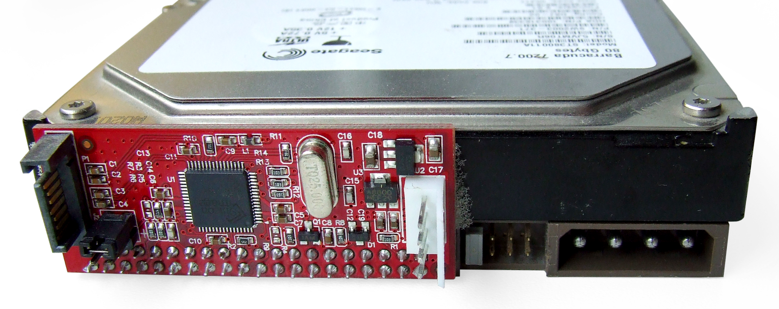 Seagate Barracuda 7200.7 series hard disk drive with SATA-to-PATA converter attached. It is based on the Silicon Image SiI3811A bridge chip and, being an active device, requires a separate power connection. A layer of foam has been added to the back of the board for insulation (untrimmed leads) and stability.